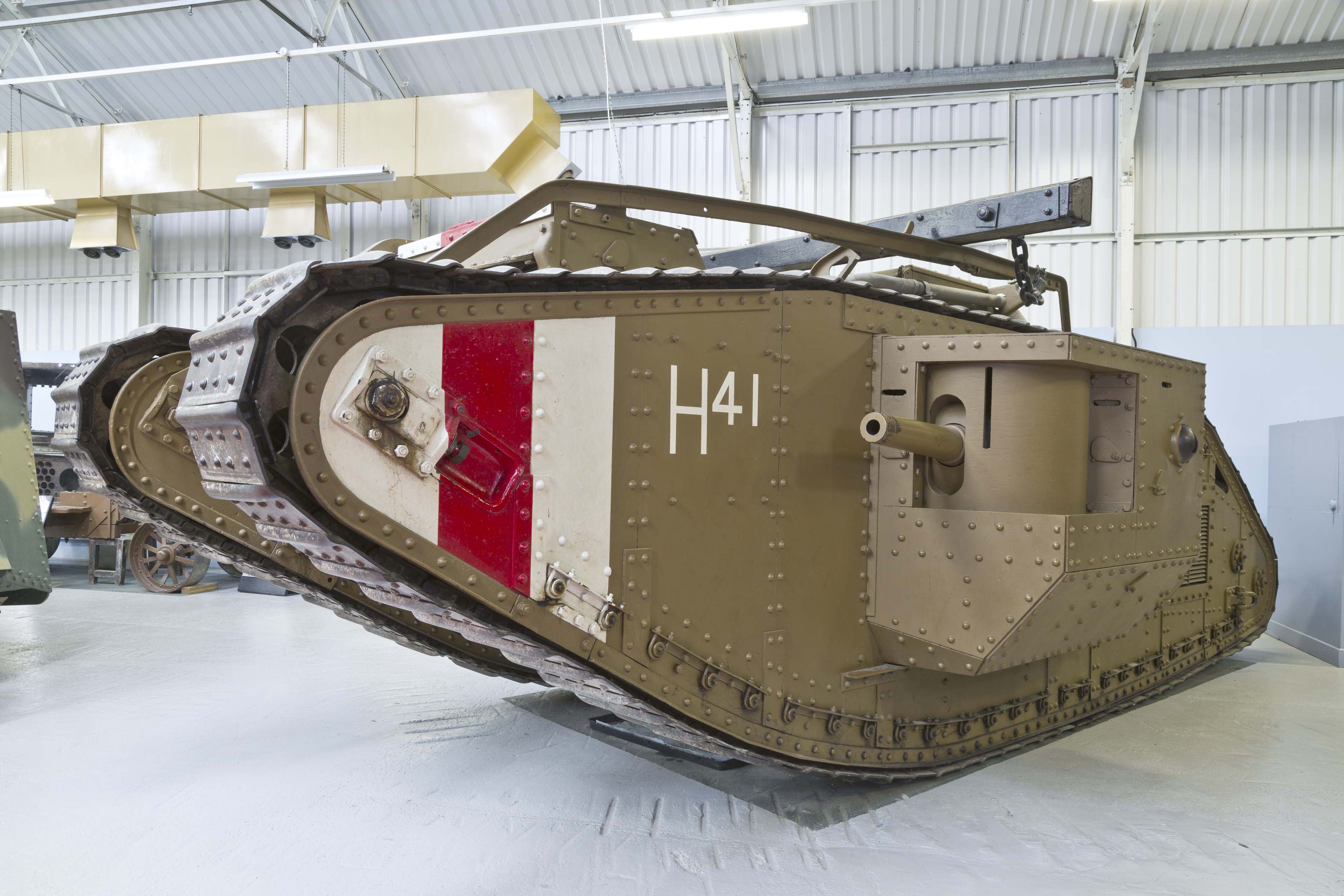 British Mark V. It saw action at the Battle of Amiens in August 1918.